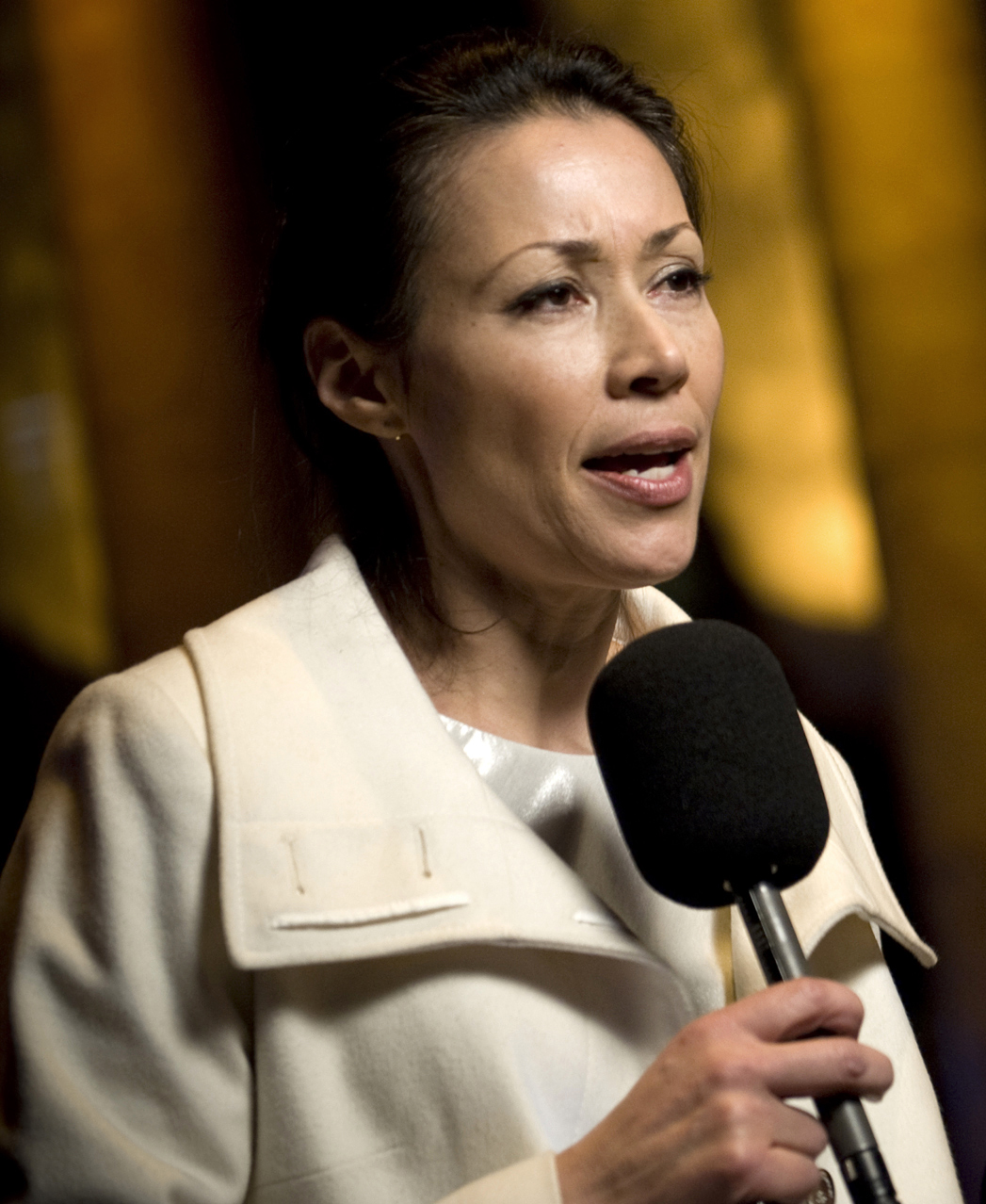 Crop of a photo of U.S. Navy Adm. Mike Mullen, chairman of the Joint Chiefs of Staff, is interviewed by NBC's Ann Curry at the Commander in Chief's Ball at the National Building Museum, Washington, D.C., Jan. 20, 2009.